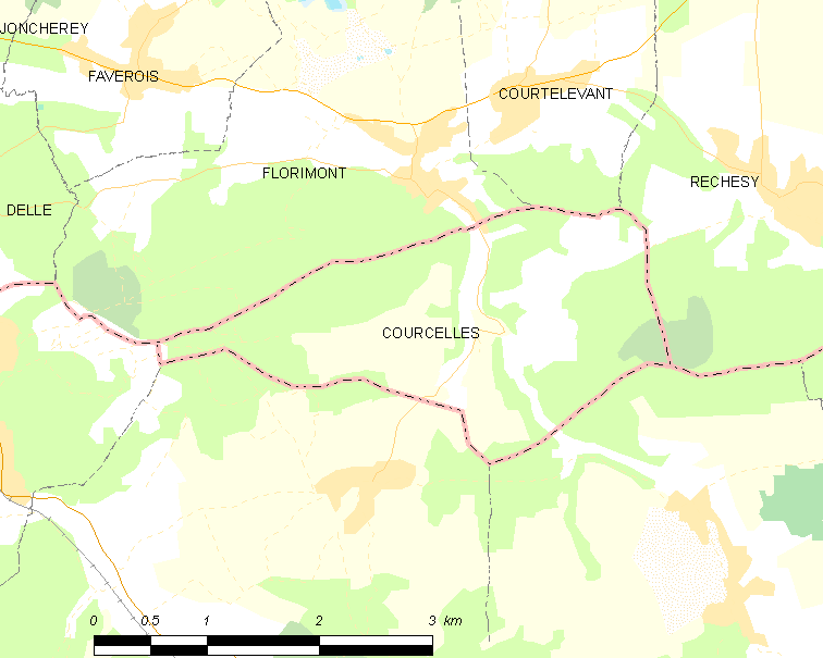 Map of French municipality Courcelles